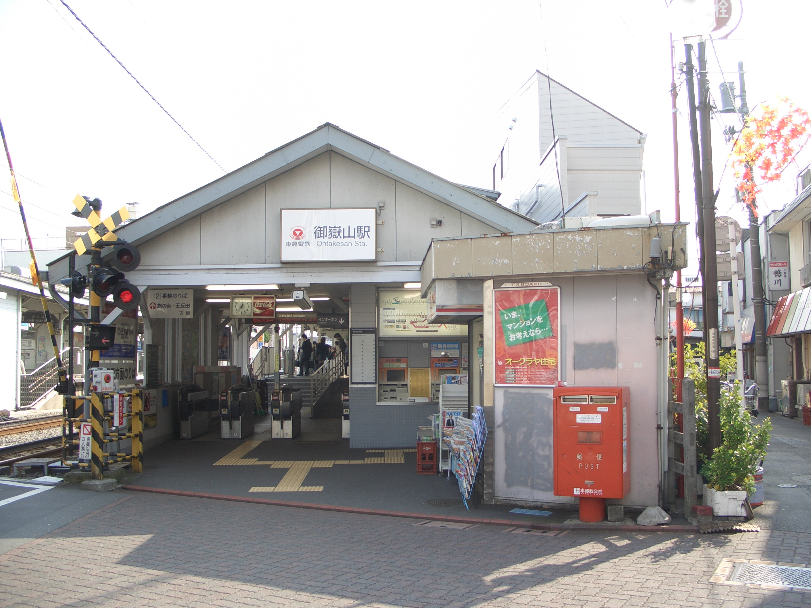 The Gotanda-bound platform entrance to Ontakesan Station on the Tokyu Ikegami Line in Tokyo, Japan